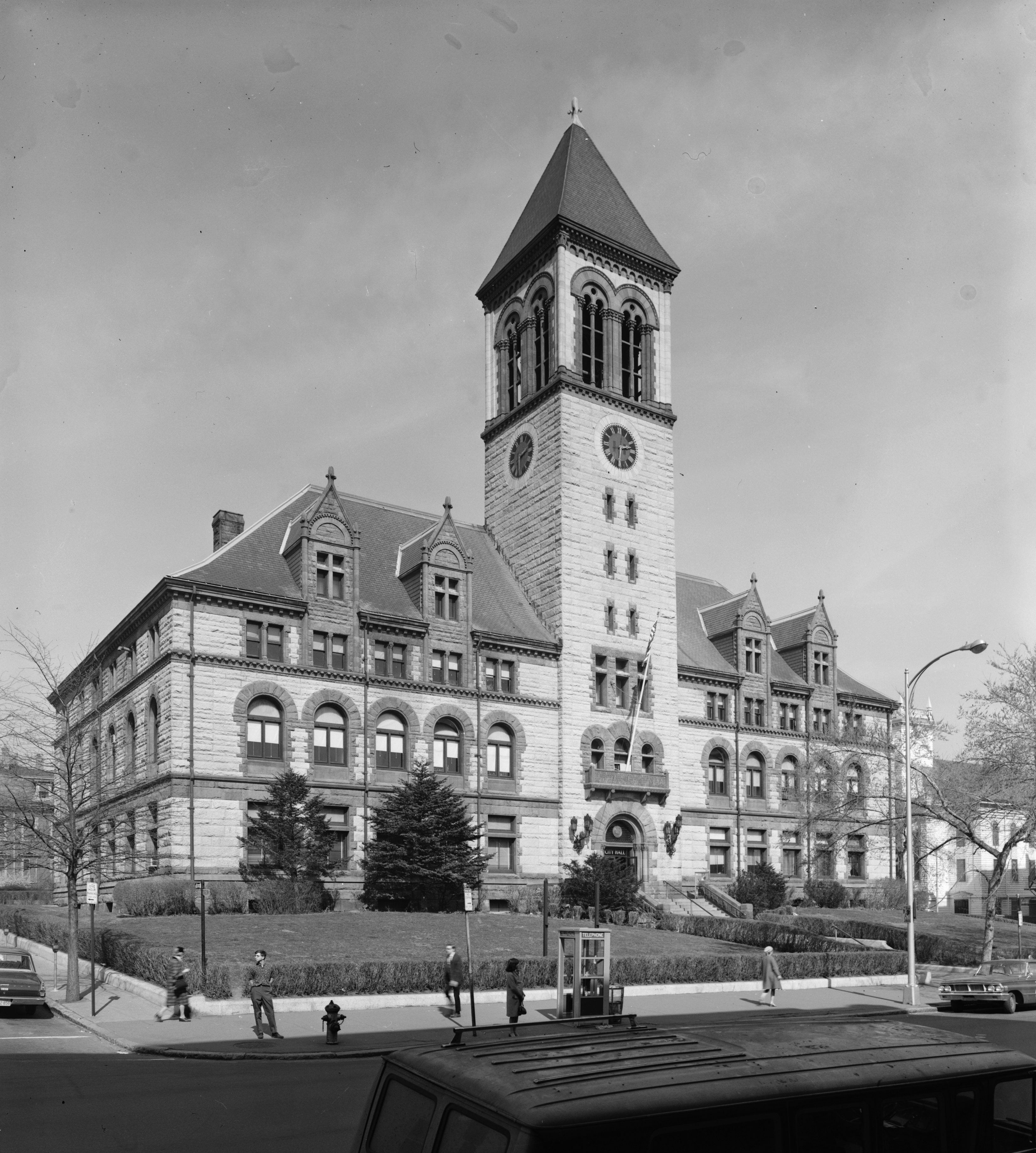 City Hall for Cambridge, Massachusetts, Exterior view, looking North West.